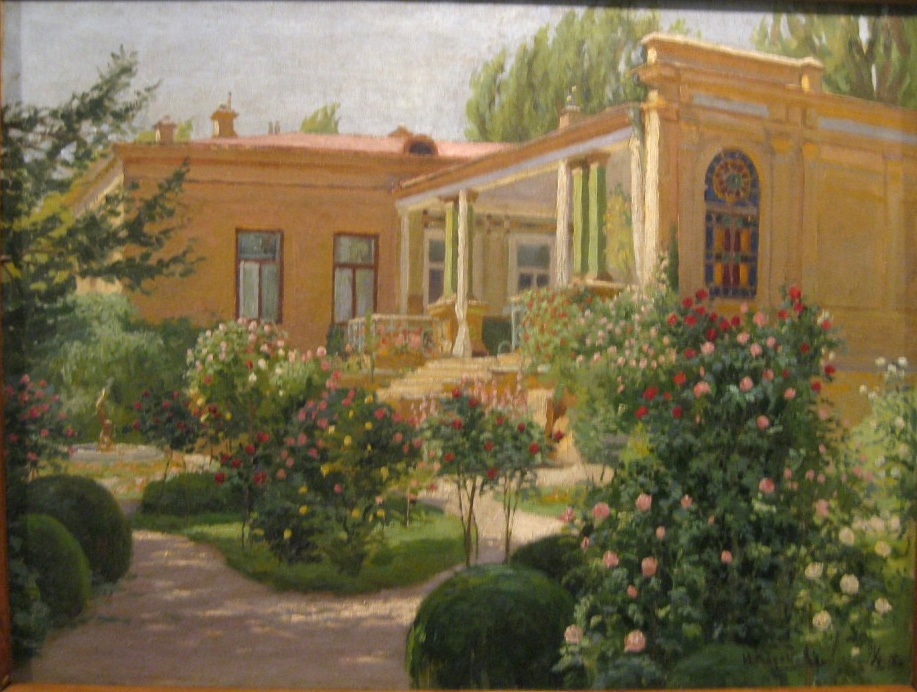 The house of the rich Tashkent townspeople in new European Tashkent. 1918.